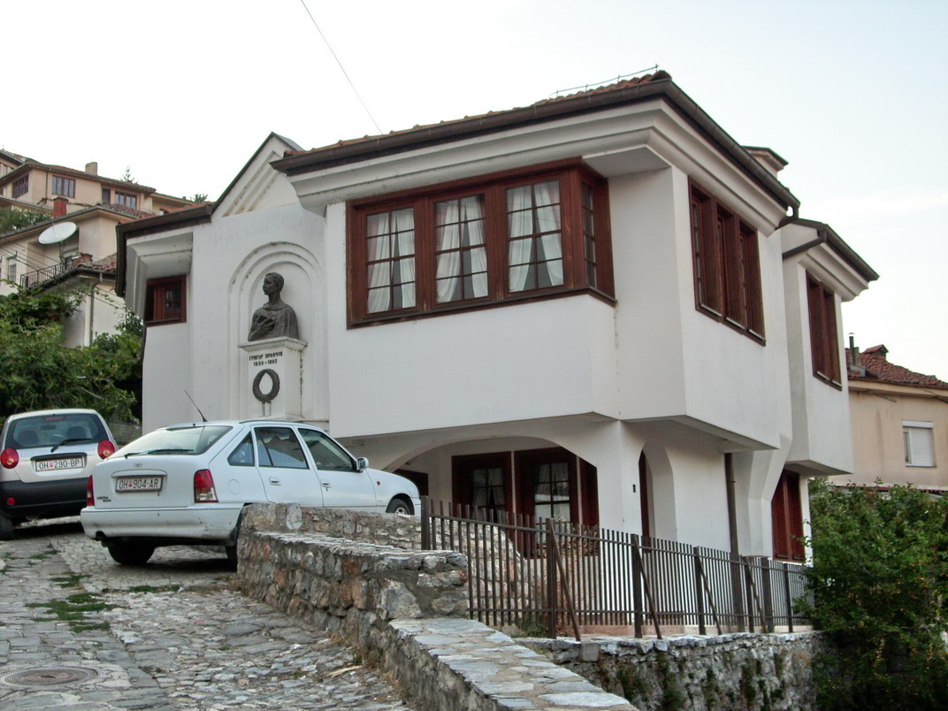 The house of Grigor Parlichev in Ohrid, Macedonia